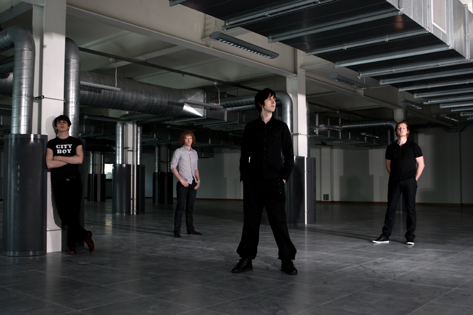 The Law, photographed by Andy Willsher, at Vision, Dundee.